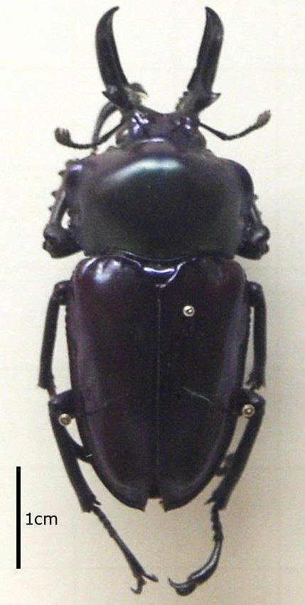 Phalacrognathus muelleri (Lucanidae), mounted specimen from Australia.